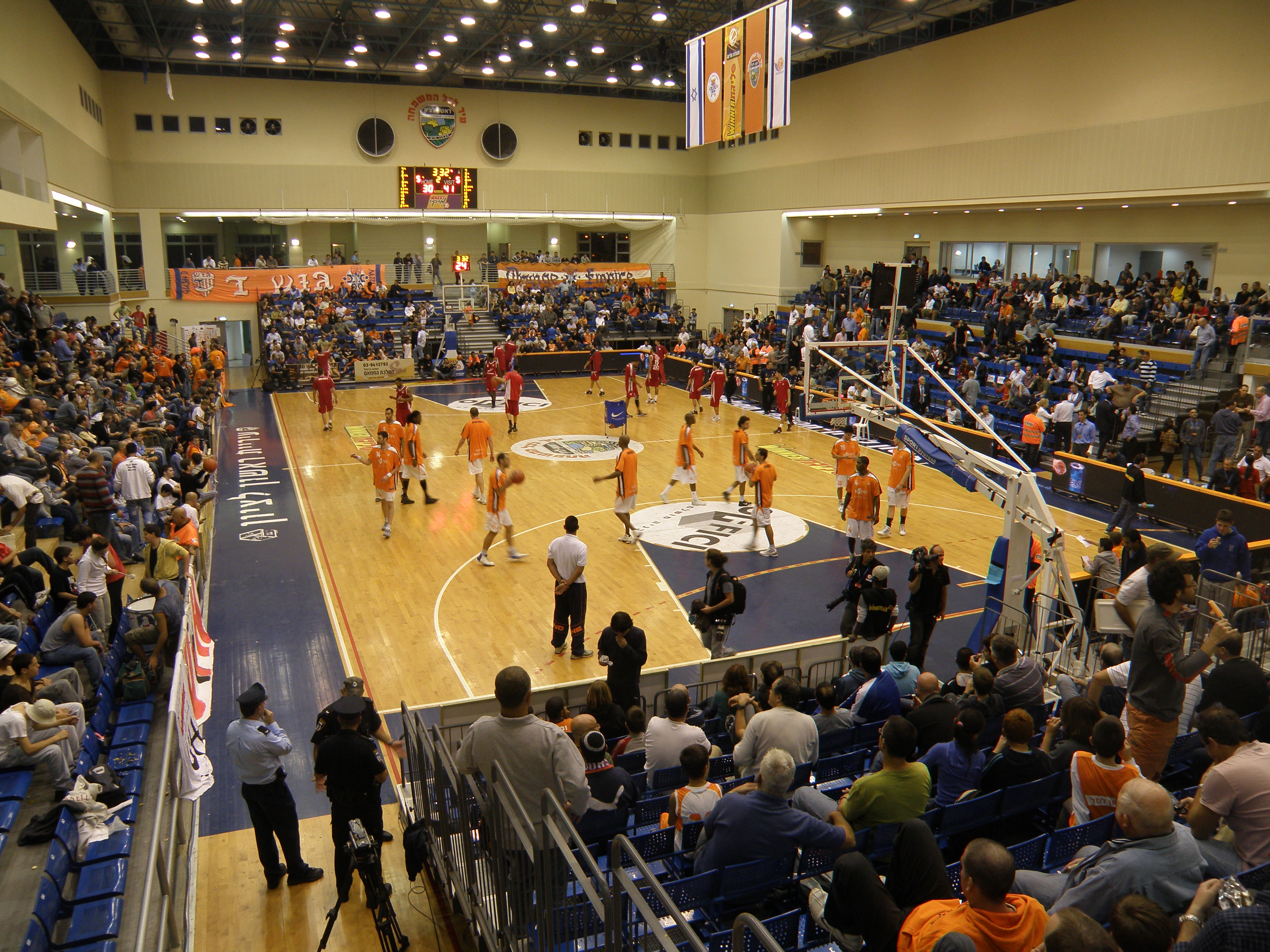 Bet Maccabi at a game between Maccabi Rishon-LeTsion Vs. Hapoel Galil/Gilboa